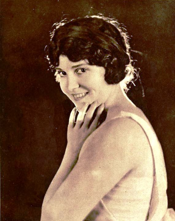 American silent film actress Madge Kennedy on page 25 of the April / May 1920 Motion Picture Magazine.